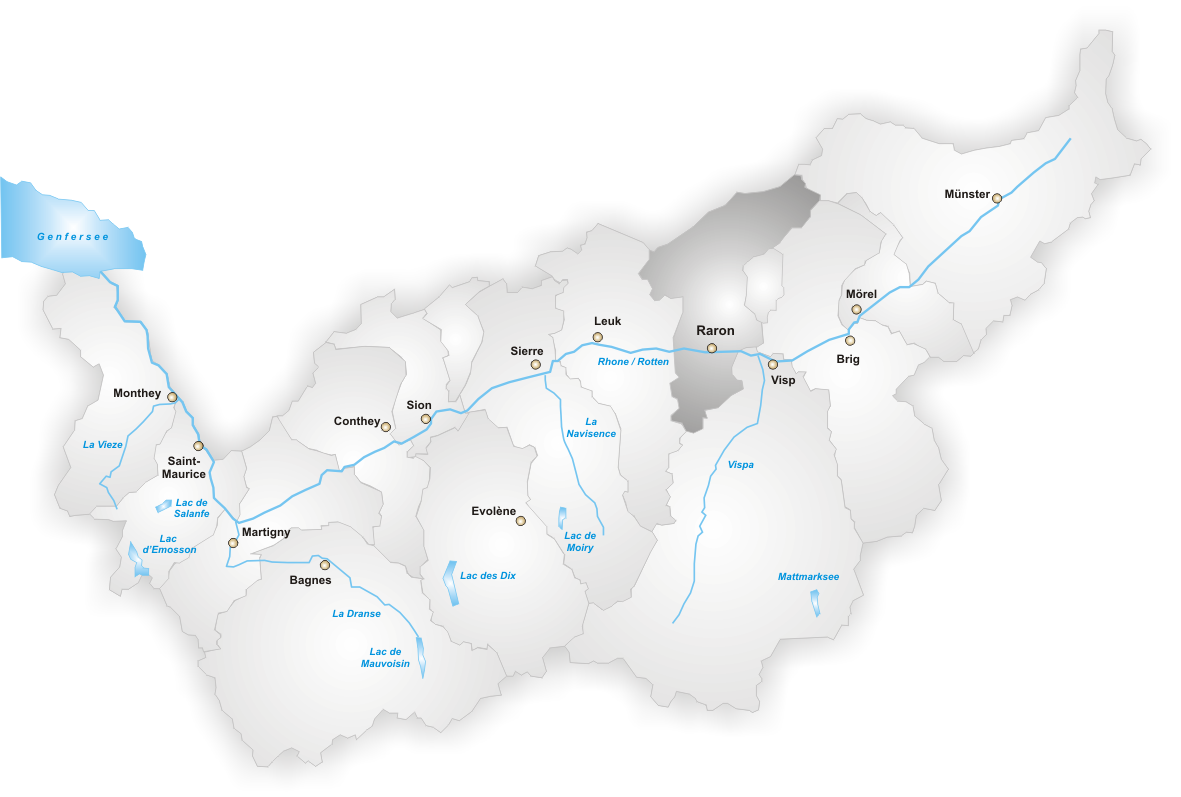 District Westlich Raron